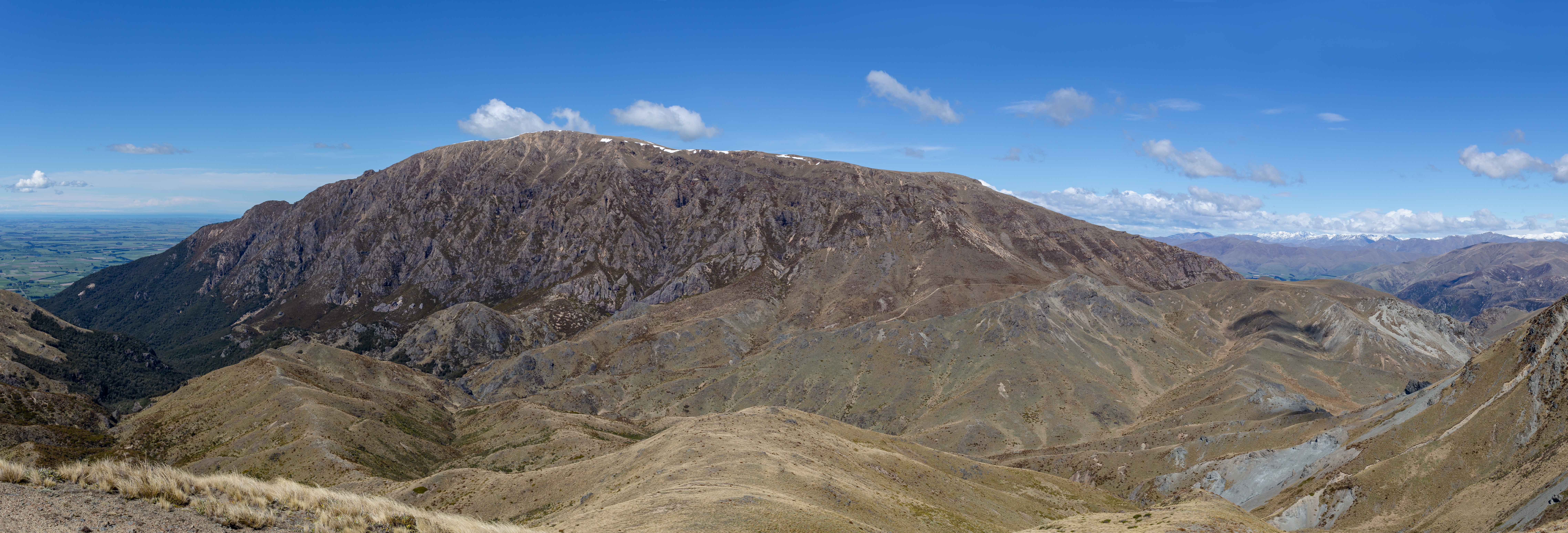 Mt Somers from Mt Winterslow, Hakatere Conservation Park in Canterbury, New Zealand